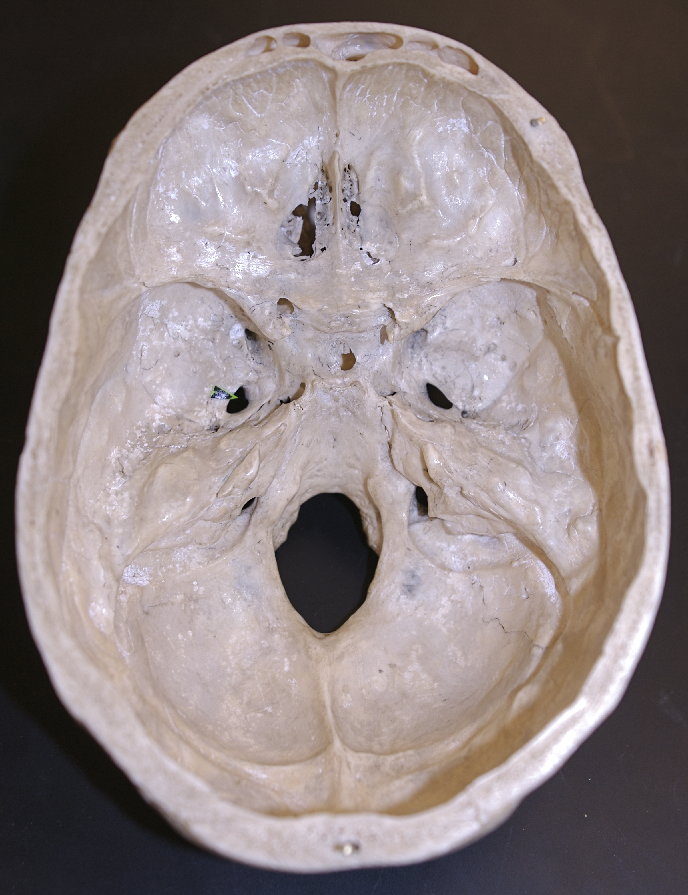 A photograph of the lower inner surface of a human skull. Anterior is up.